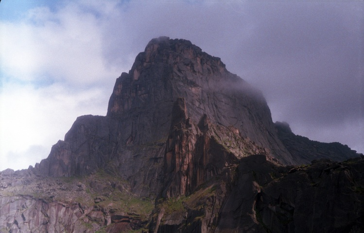 Western Sayan, Ergaki Mountains, Zvezdnyi peak